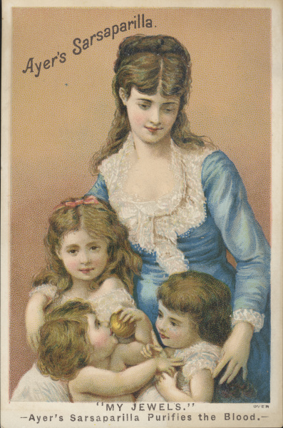 Persistent URL: Subject (TGM): Women; Children; Domestic life; Patent medicines; Mothers; Mothers & children; Message: Keywords